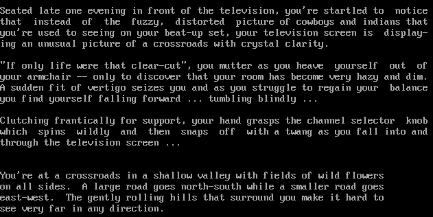 Screenshot of "Wander" (world: castle) the first Textadventure in 1974 or 1973 by Peter Langston